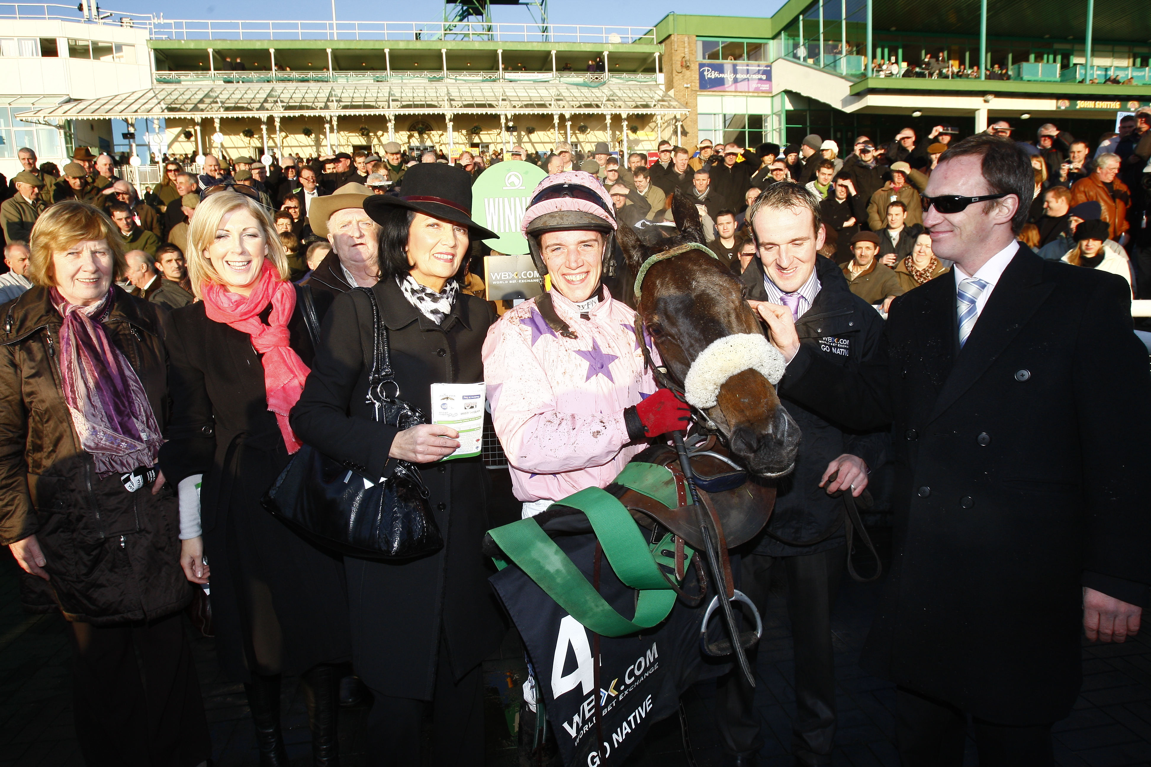 This is my own work. It is from the 2009 Fighting Fifth Hurdle.